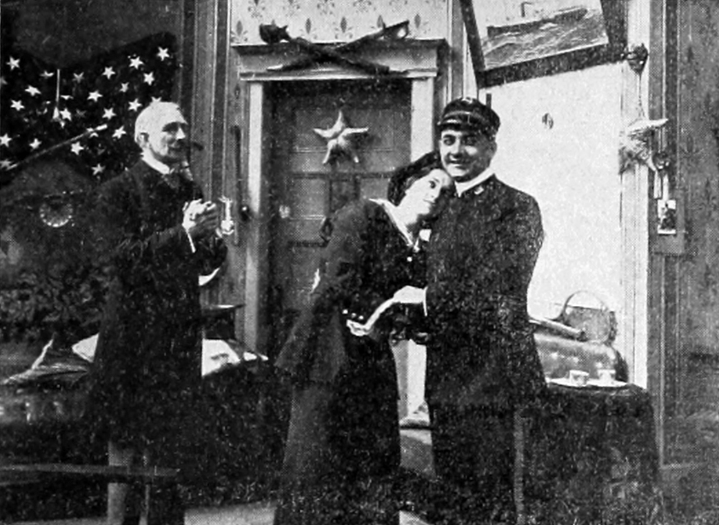 Dorothy Gibson in Saved from the Titanic (1912). Alec B. Francis plays "Father" (left), Dorothy plays herself (centre) and John G. Adolfi plays Ensign Jack (right).